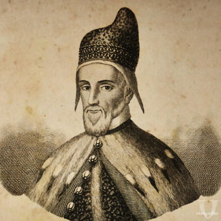 Nicolò Donà, doge of Venice from April 1618 to May 1618